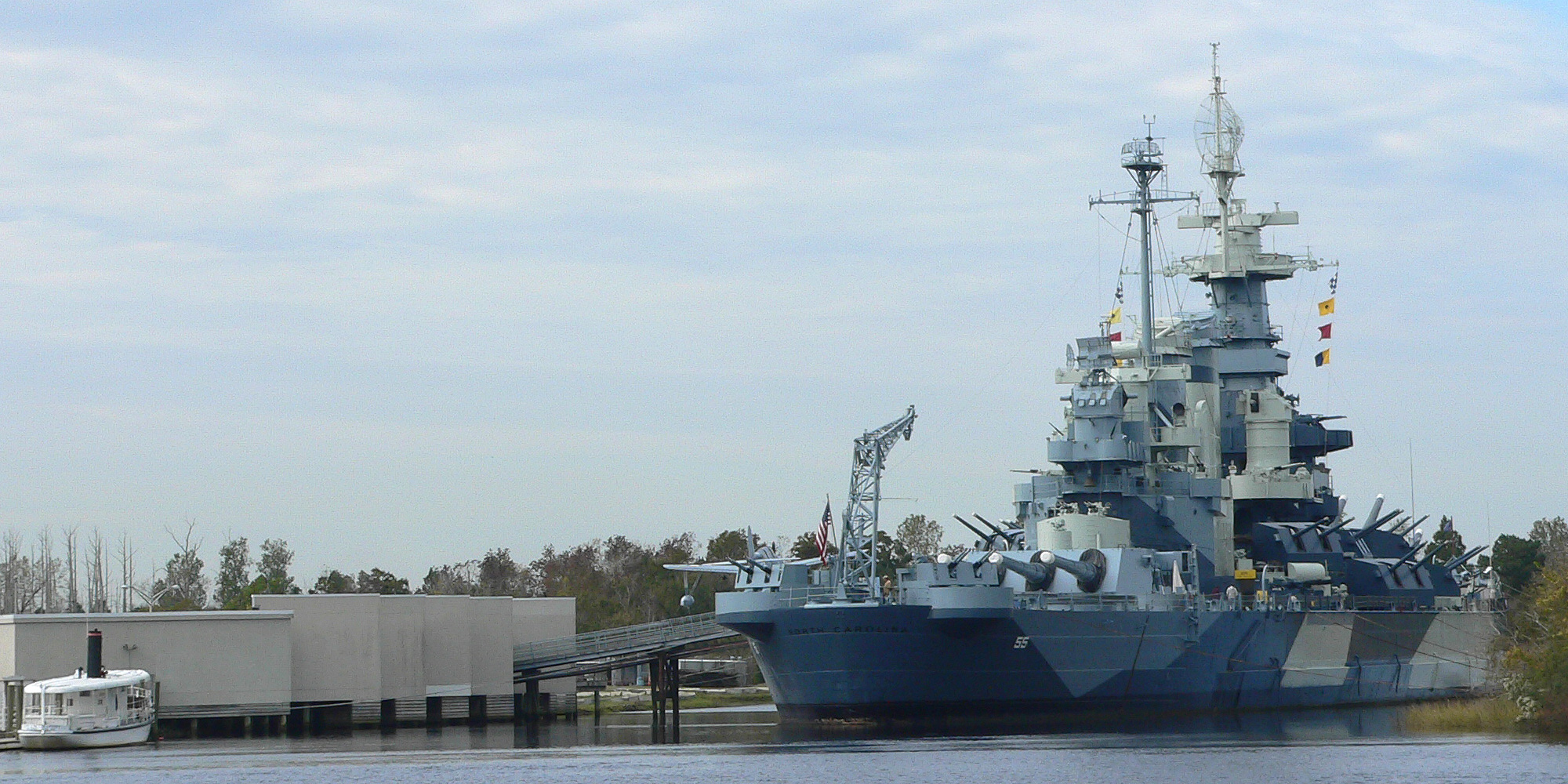 The USS North Carolina, a WW2-era US Navy battleship which now rests near the mouth of the Cape Fear River in Wilmington, NC where she serves as a floating museum and war memorial. Photo taken with a Panasonic Lumix DMC-FZ50 in New Hanover County, NC, USA.